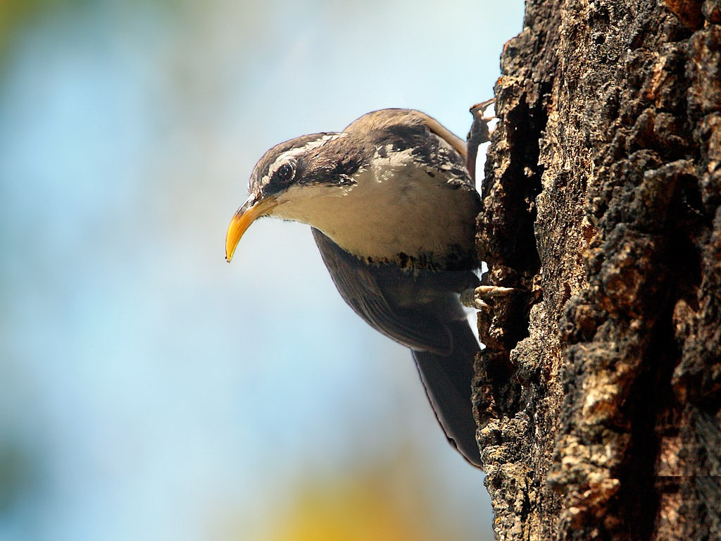 Indian Scimitar Babbler at Ooty, S.India